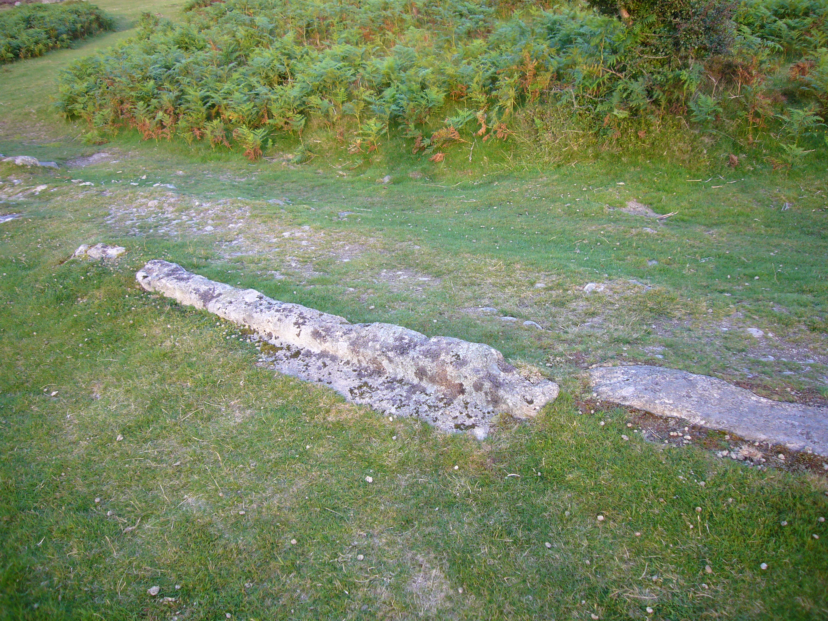 Detail of granite "rails" on the Haytor tramway (Dartmoor)